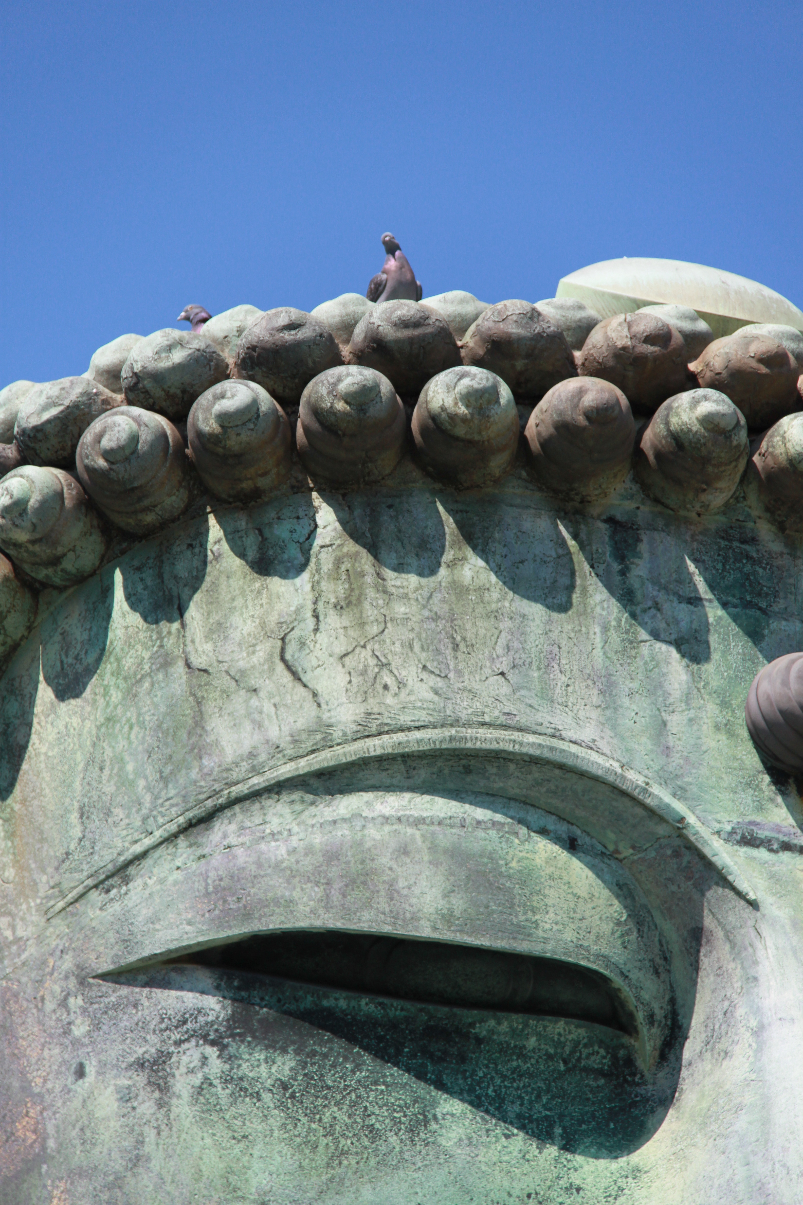 Closeup shot of buddha at kamakura. A dove is sitting on the head, making the actual size rather impressing.